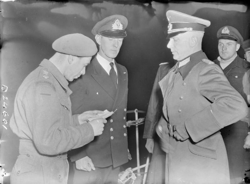 Channel Islands Liberated- the End of German Occupation, Channel Islands, UK, 1945 Major General Heine, German Commander-in-Chief of the Channel Islands (right), has his identification papers checked as arrives at HMS BULLDOG to sign the document of surrender.